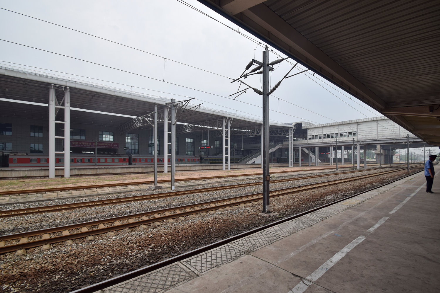 Wuhan-Jiujiang Railway Platform 1-4 of E'zhou Railway Station, view towards E'zhou Bei (North) Railway Station.